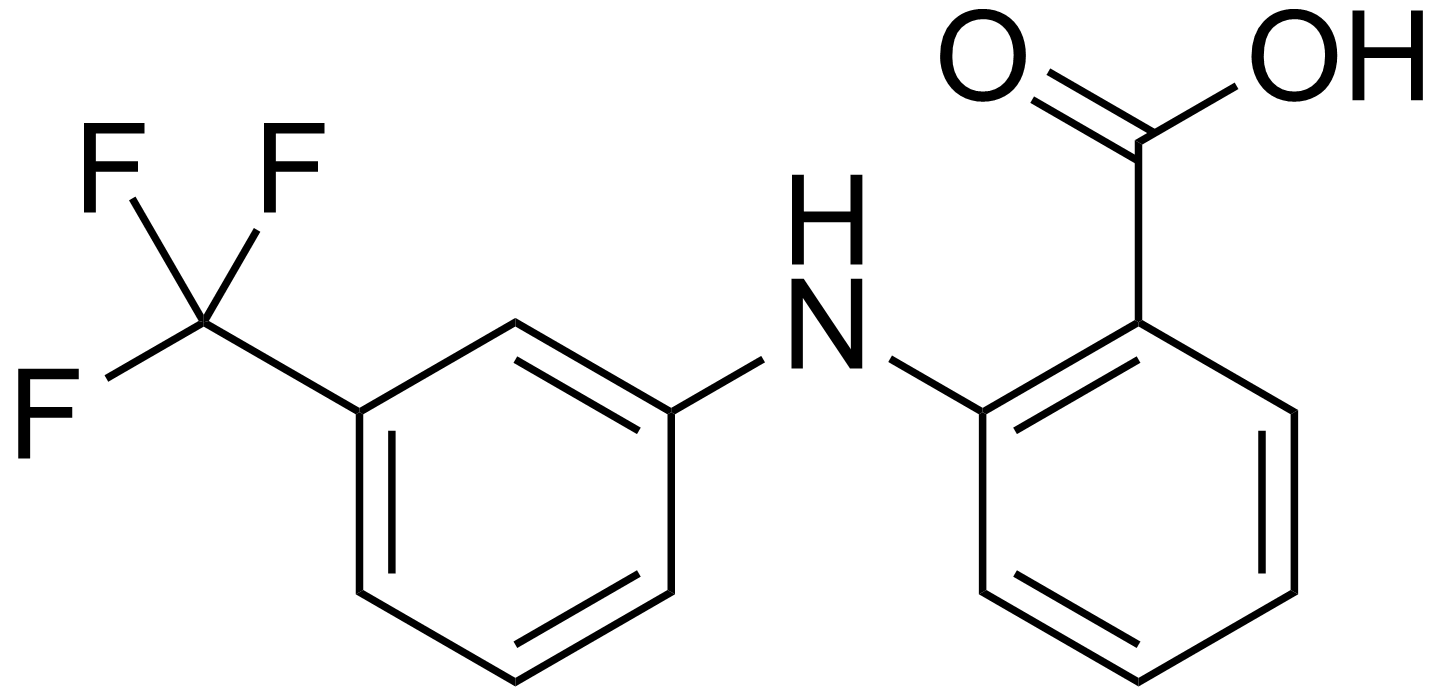 chemical structure of flufenamic acid